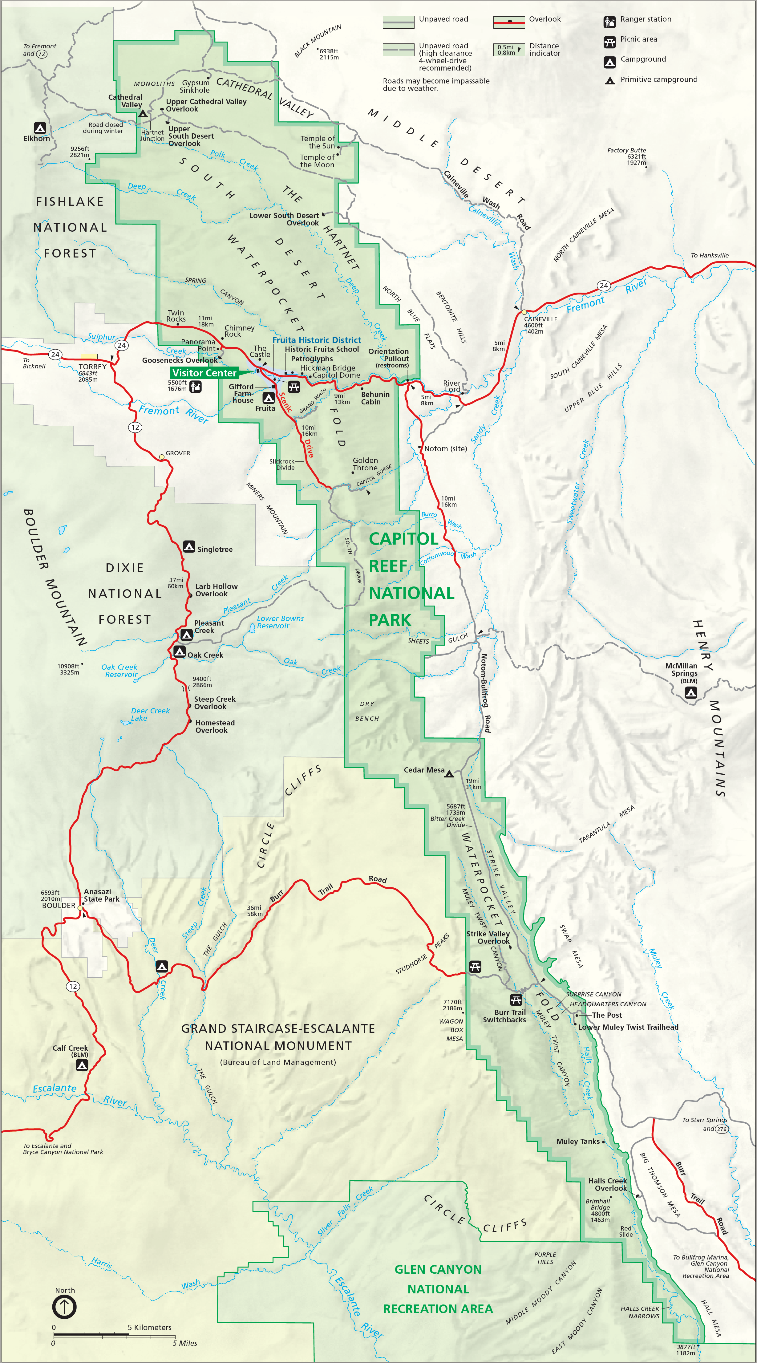 Map of Capitol Reef National Park — in southern Utah.